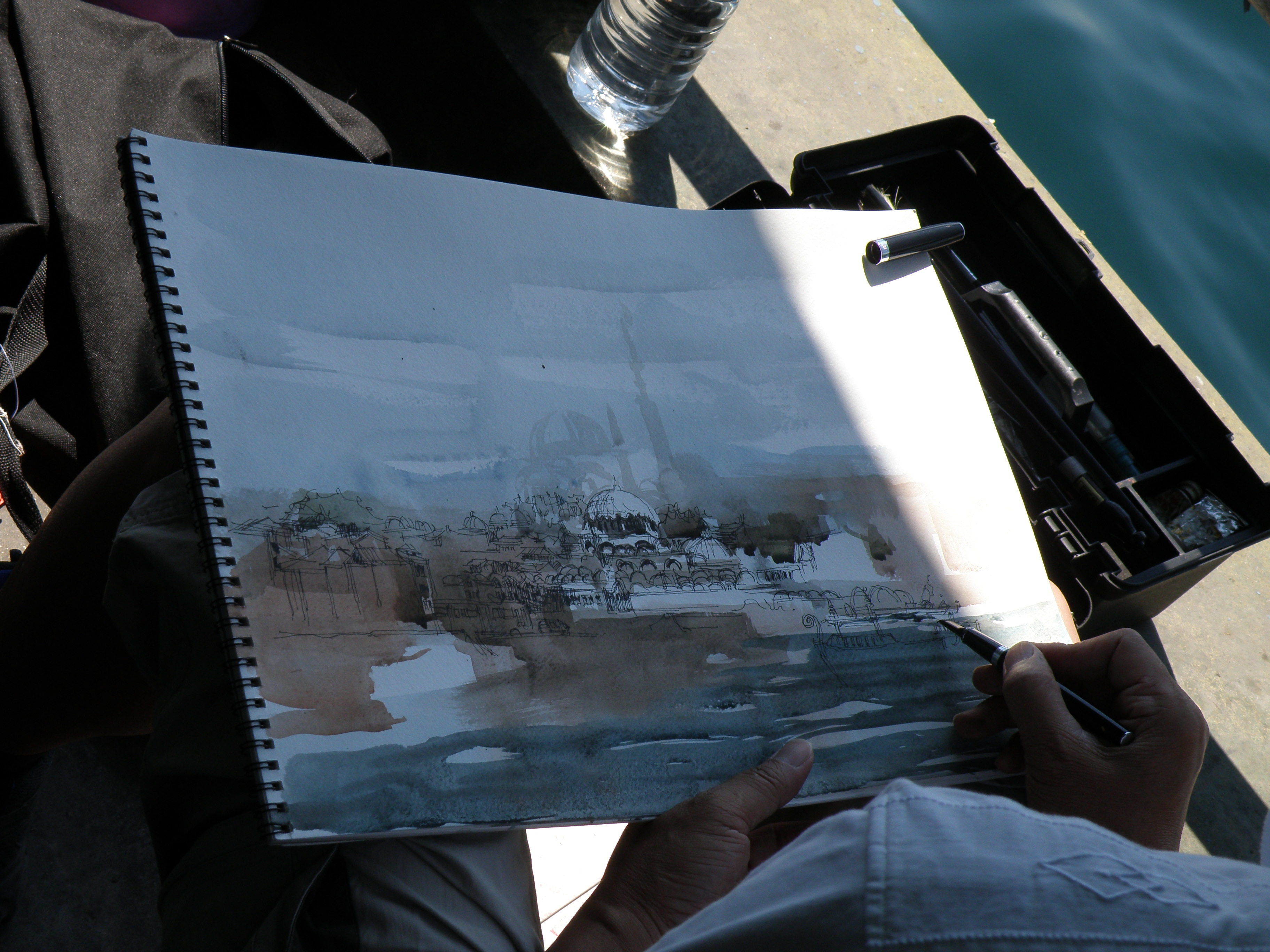 An unknown painter in Istanbul